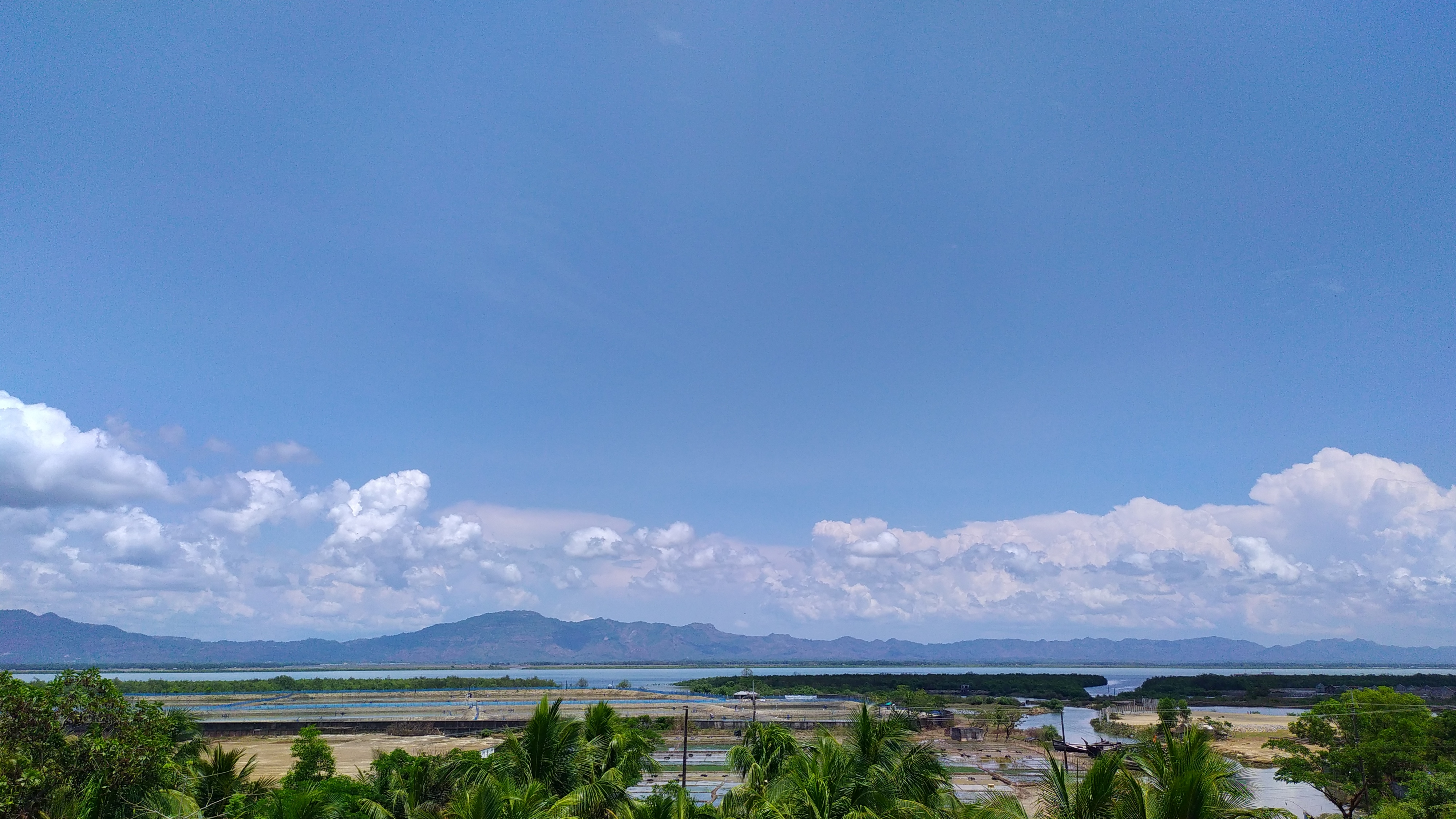 Bangladesh-Myanmar border, Teknaf